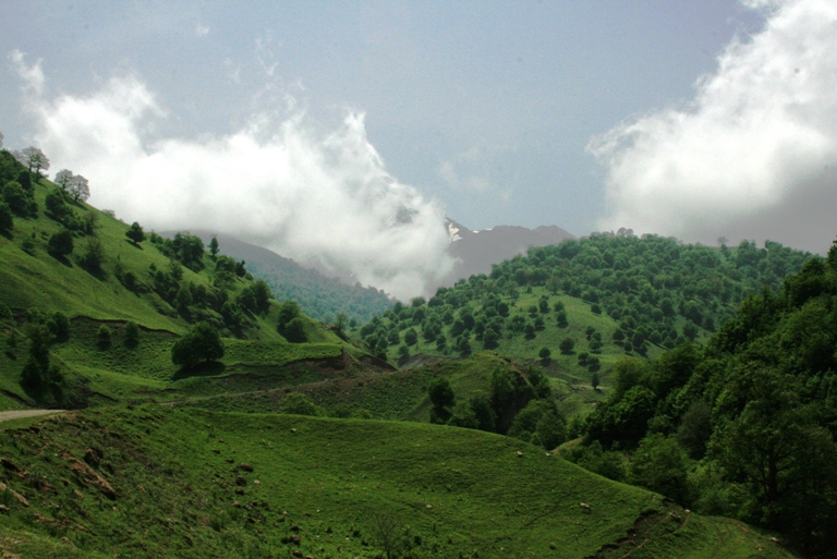 murov mountain in Azerbaijan/Caucasus